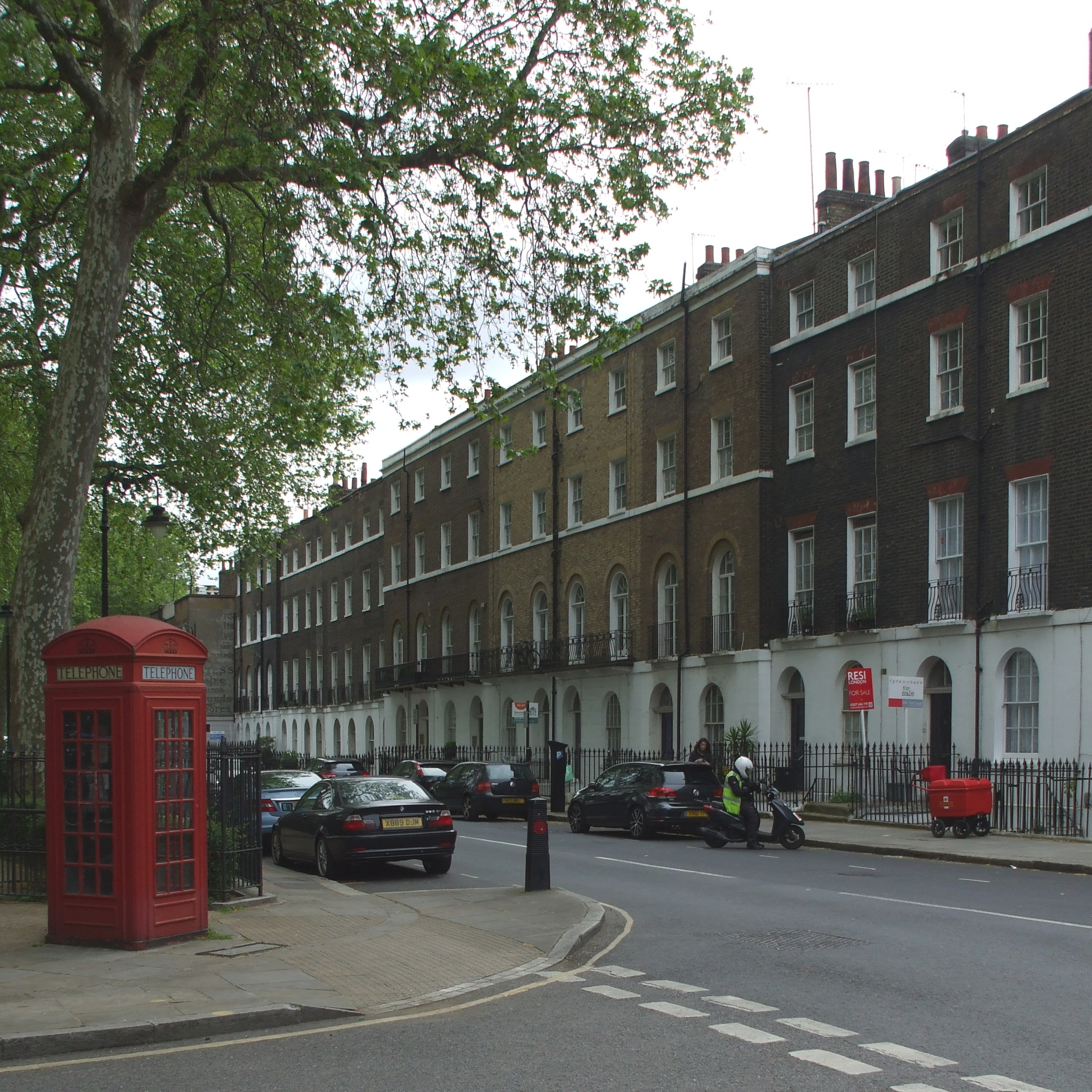 The surviving south side of the square seen from the W, part of a symmetrical composition of c.1829 in which the centre and ends are emphasised by round-headed first-floor windows and a plat band under the second-floor windows: . The K2 telephone box on the left dates from 1927: .